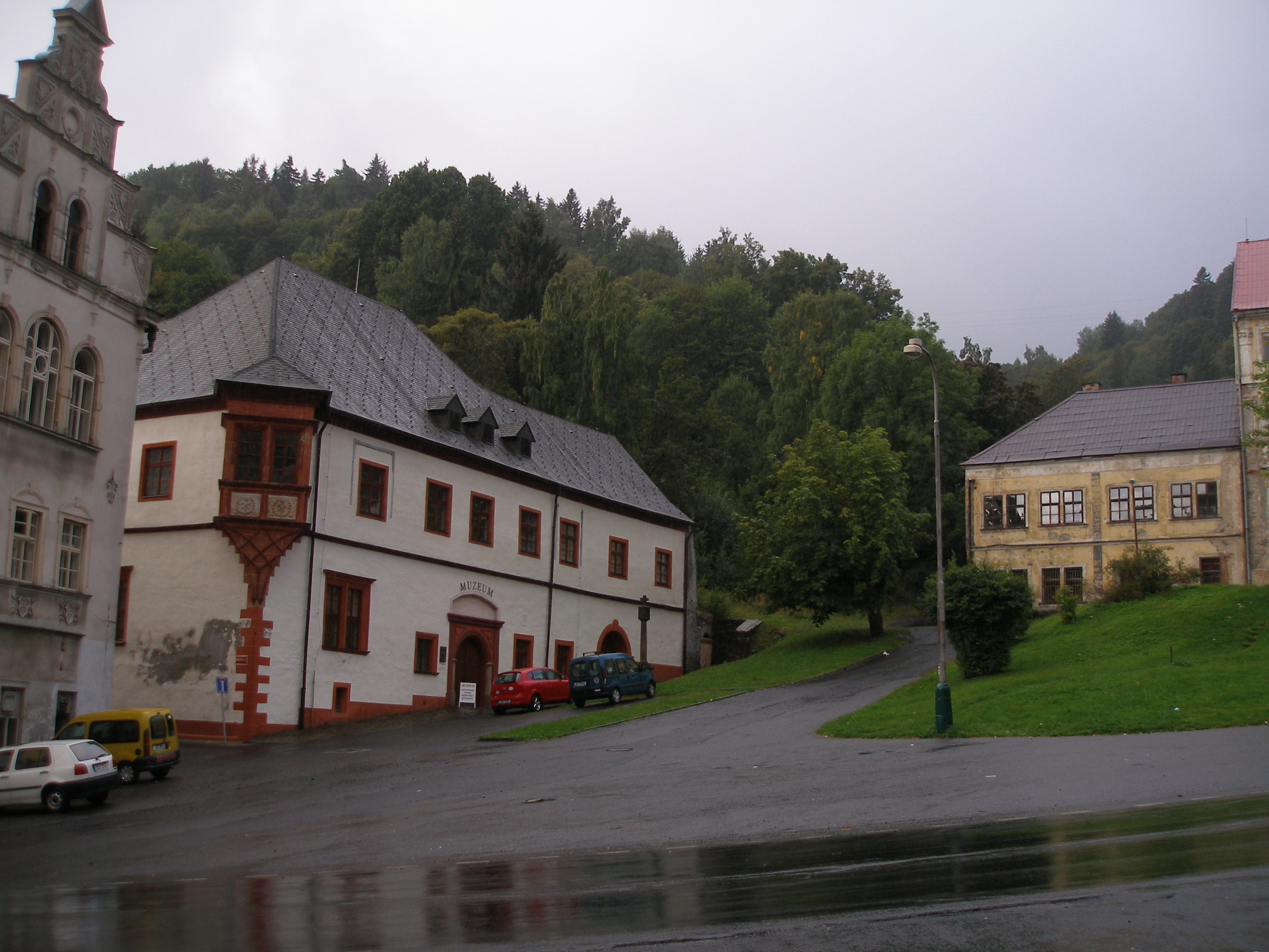 Museum in Jáchymov